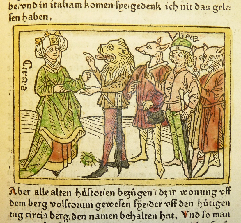 Woodcut illustration (leaf [g]1r, f. li) of Circe and Odysseus with men transformed into animals, hand-colored in red, green, yellow and black, from an incunable German translation by Heinrich Steinhöwel of Giovanni Boccaccio's De mulieribus claris, printed by Johannes Zainer at Ulm ca. 1474 (cf. ISTC ib00720000). One of 76 woodcut illustrations (1 on leaf [e]8v dated 1473), each 80 x 110 mm., depicting scenes from the life of the women chronicled (for a full list of subjects, cf. W.L. Schreiber, Handbuch der Holz- und Metallschnitte des XV. Jahrhunderts (Nendeln: Kraus Reprints, 1969), no. 3506). "Pour la première moitie le nom se trouve inscrit à côte de la tête de chaque femme, pour le reste il es ajouté entre les deux réglettes. Il n'y en a que trois, qui n'ont qu'un seul trait carré."--Schreiber. Established form: Zainer, Johannes, ‡d d. 1541?. Established form: Circe (Greek mythology) Established form: Odysseus (Greek mythology) Penn Libraries call number: Inc B-720 All images from this book Penn Libraries catalog record